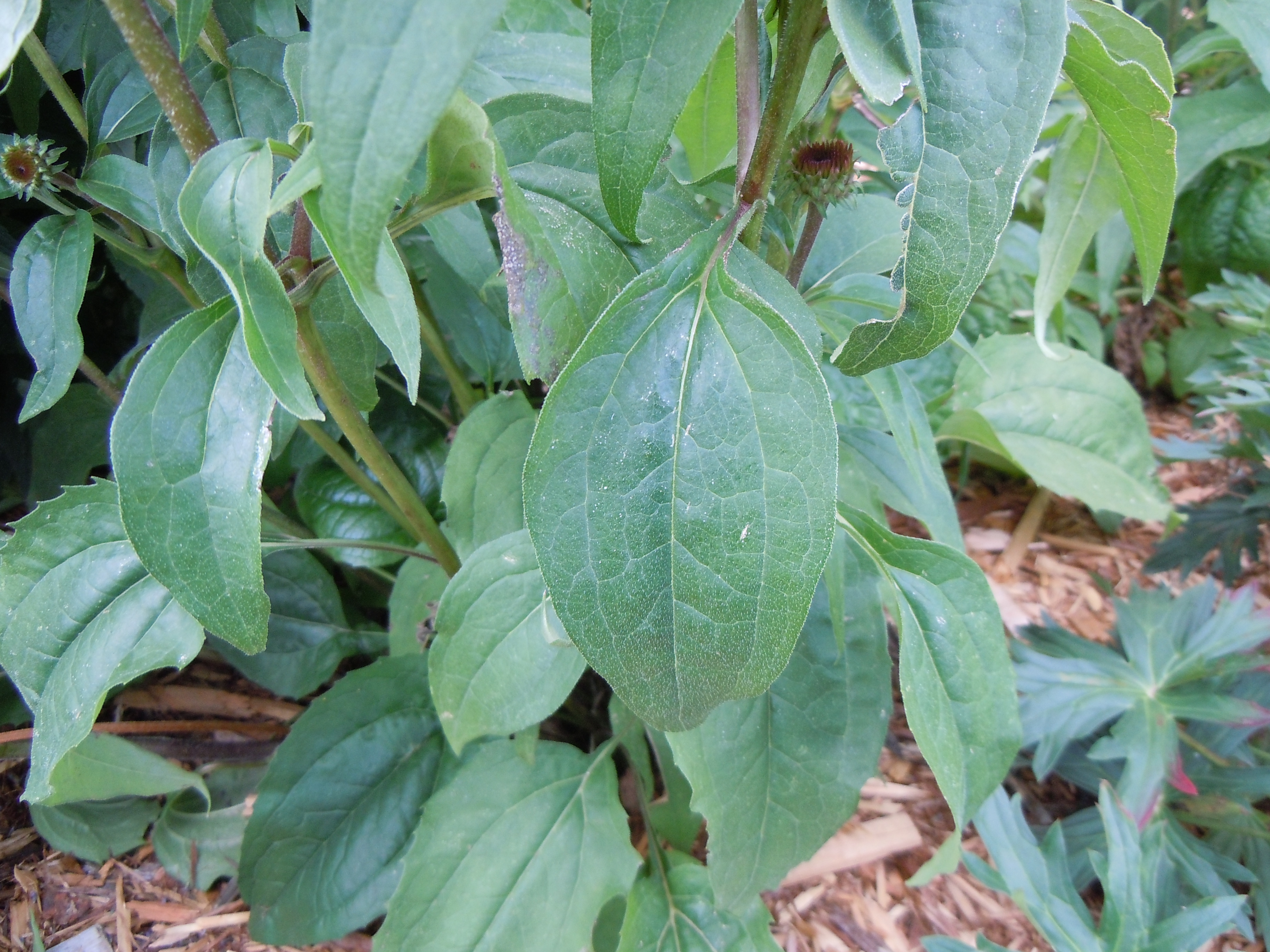 The broad serrate leaves differ from those of the native Montana Echinaceae angustifolia.